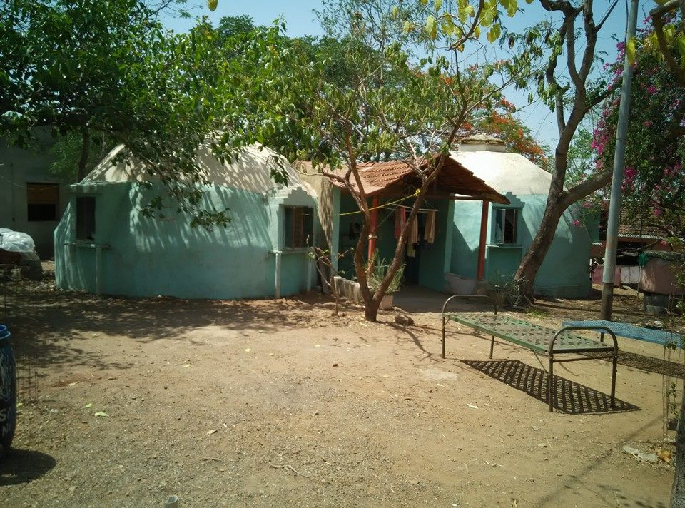 Joint geodesic domes constructed by students of Vigyan Ashram at Pabal, Pune.